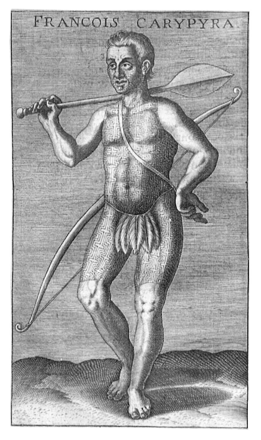 Warrior of the Tabajara tribe of Brazil baptized Francois Carypyra, 1614